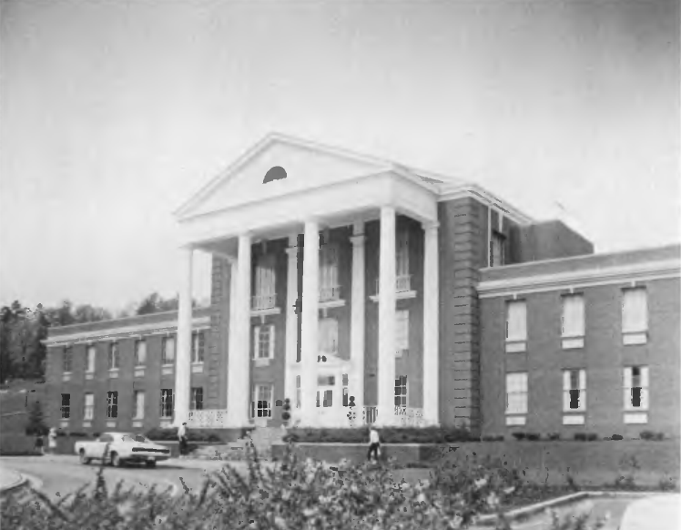 Wright Hall, the administrative building of Southern Missionary College, completed in 1967, from Southern Missionary College, a school of His planning 1892-1972 by Elva B. Gardner